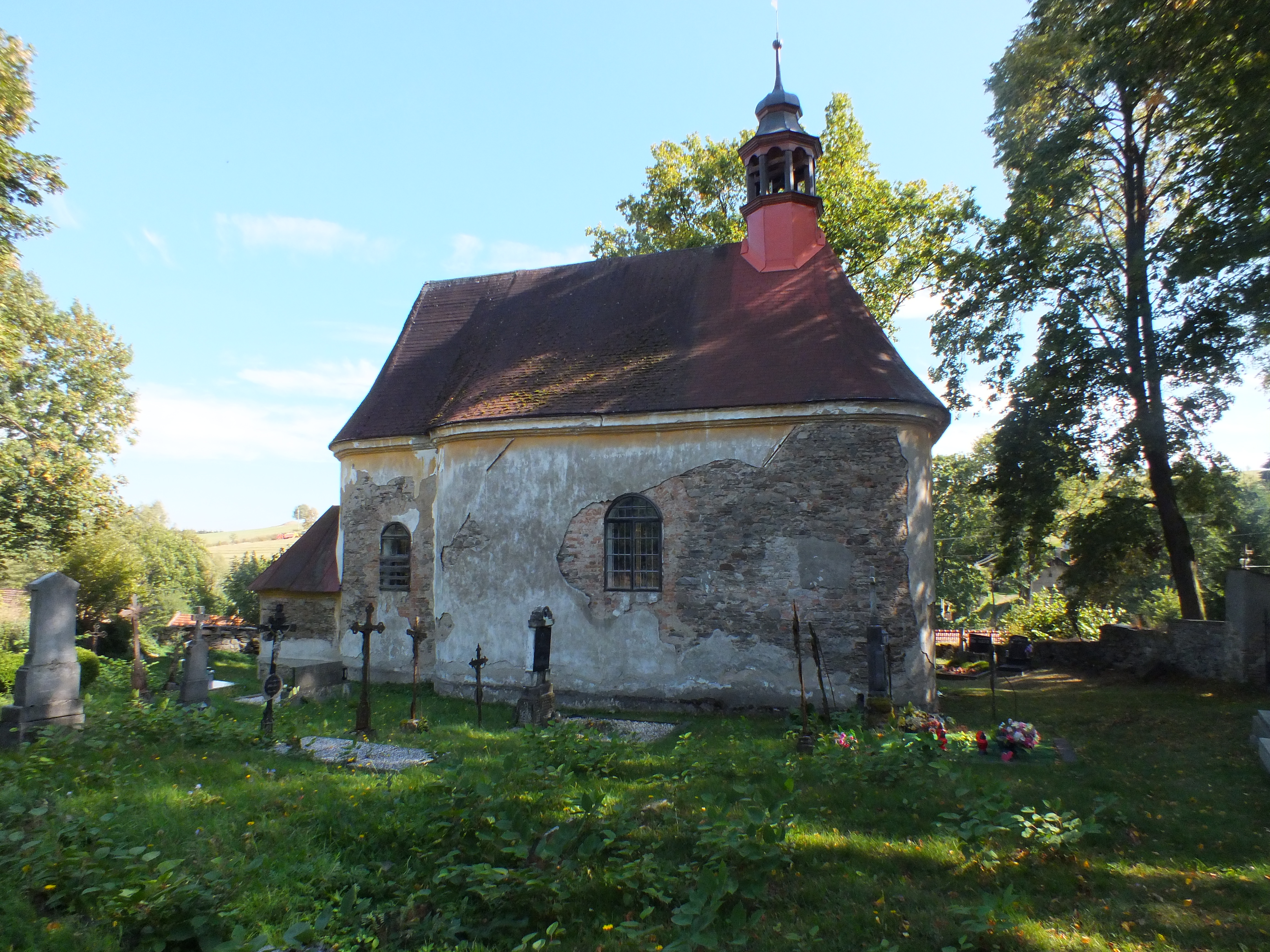 The church of Saint Mary Magdalene in Boškov